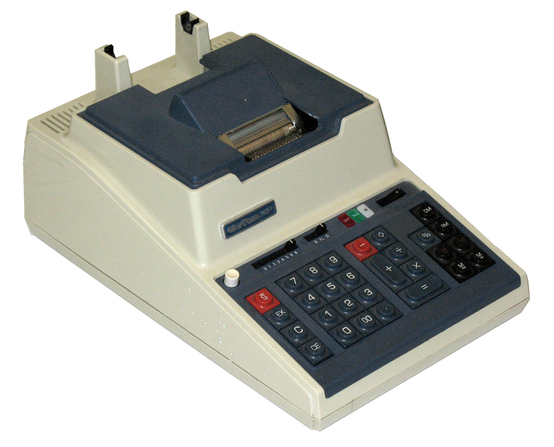 The UniCom 141P printing calculator sold for $695 when introduced in 1972. It was built by Busicom Corp of Japan (formerly Nippon Calculating Machine). The calculator was initially sold as the Busicom 141-PF and then was sold by UniCom and National Cash Register. The integrated circuits used in the calculator were a result of a joint development effort by Busicom and Intel. Intel offered the chip set as the MCS-4 microcomputer system in November 1971. It included the Intel 4004 4-bit CPU, one of the earliest microprocessors. This description is from an advertisement in the July 1972 issue of The Office - Magazine of Management, Equipment, Automation. "Performs chain calculations with or without printing of the intermediate answers. Has two accumulators plus a powerful working register. Lets you flip-flop amounts between registers when multiplying or dividing. Has two complete decimal systems -full floating or floating in/fixed out. Works percentages without decimal indexing. Prints three lines a second, identifies every item, and shows negative answers in red. Performs automatic duplex functions. Weighs just 11 pounds and takes up only a little more desk space than a letterhead." UniCom, 10670 North Tantau Avenue, Cupertino, California 95014 The calculator in this picture was purchased at a thrift store in 2004 for $5 by Sellam Ismail, creator of the Vintage Computer Festival. This photo was taken at VCF 10 held at the Computer History Museum in Mountain View, CA, November 3-4, 2007 by Michael Holley using a Canon PowerShot A630.